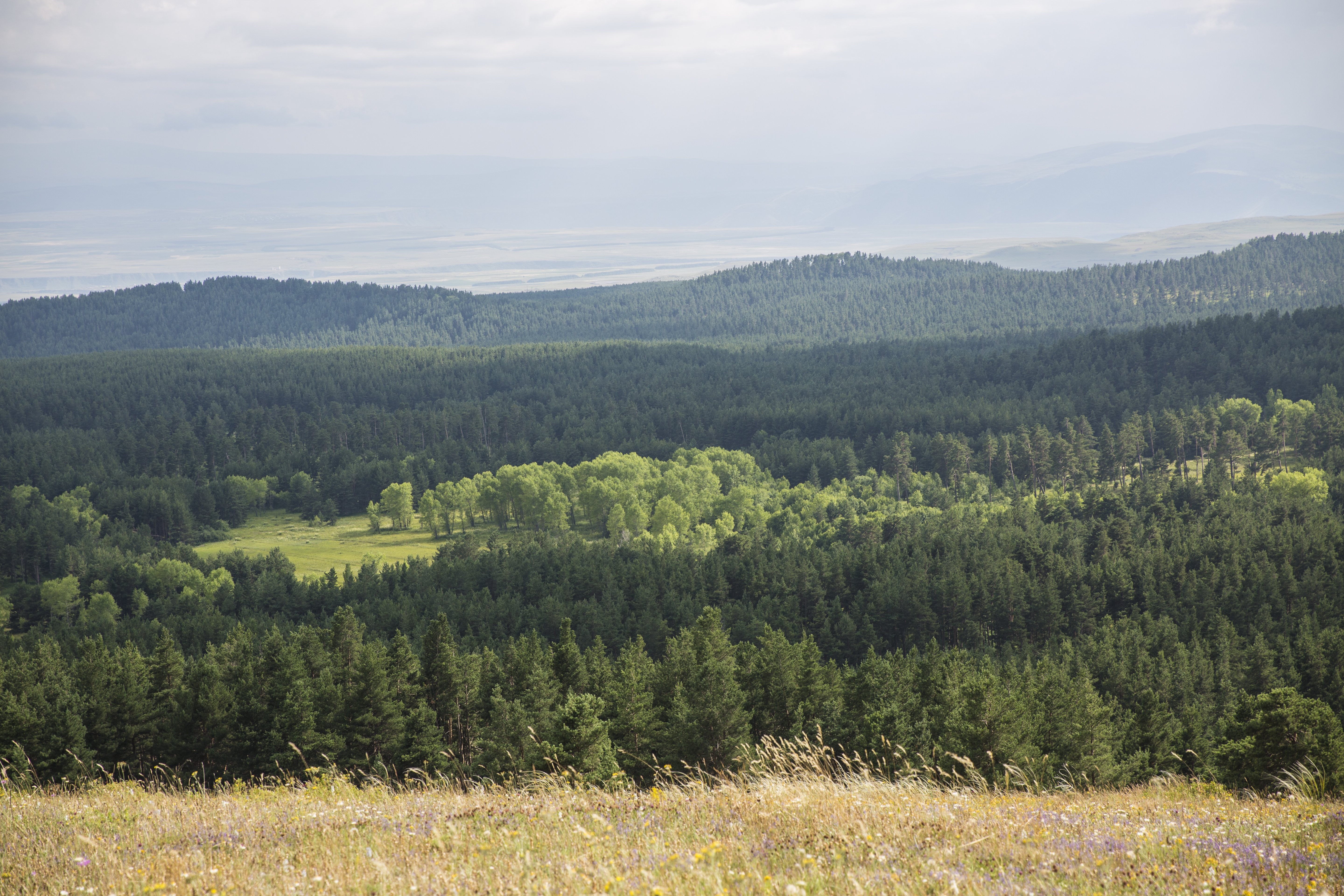 Javakheti Protected Areas was established in 2011. It includes Javakheti National Park, Kartsakhi Managed Reserve, Sulda Managed Reserve, Khanchali Managed Reserve, Bugdasheni Managed Reserve and Madatapa Managed Reserve, Tetrobi Managed Reserve. Javakheti Protected Areas include Municipalities of Akhalqalaqi and Ninotsminda. There are lots of lakes on Javakheti Plateau, including the biggest one – Lake Paravani. The highest point of Javakheti is Mount Great Abuli, with a height of 3,300 meters above sea level. Javakheti upland is the coldest places among settlements. It is characterized by dry continental climate, while the average annual temperature is quite low. In winter Javakheti lakes freeze for a long time